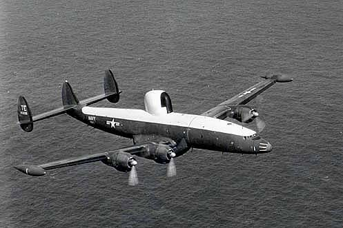 A U.S. Navy Lockheed WV-2 (after 1962: EC-121K) from Airborne Early Warning Squadron VW-1 in flight. VW-1 was stationed at Naval Air Station Agana, Guam (USA). Whereas the U.S. Air Force crews dubbed the C-121 the "Constellation", the U.S. Navy crews called the aircraft the "Willy Victor".